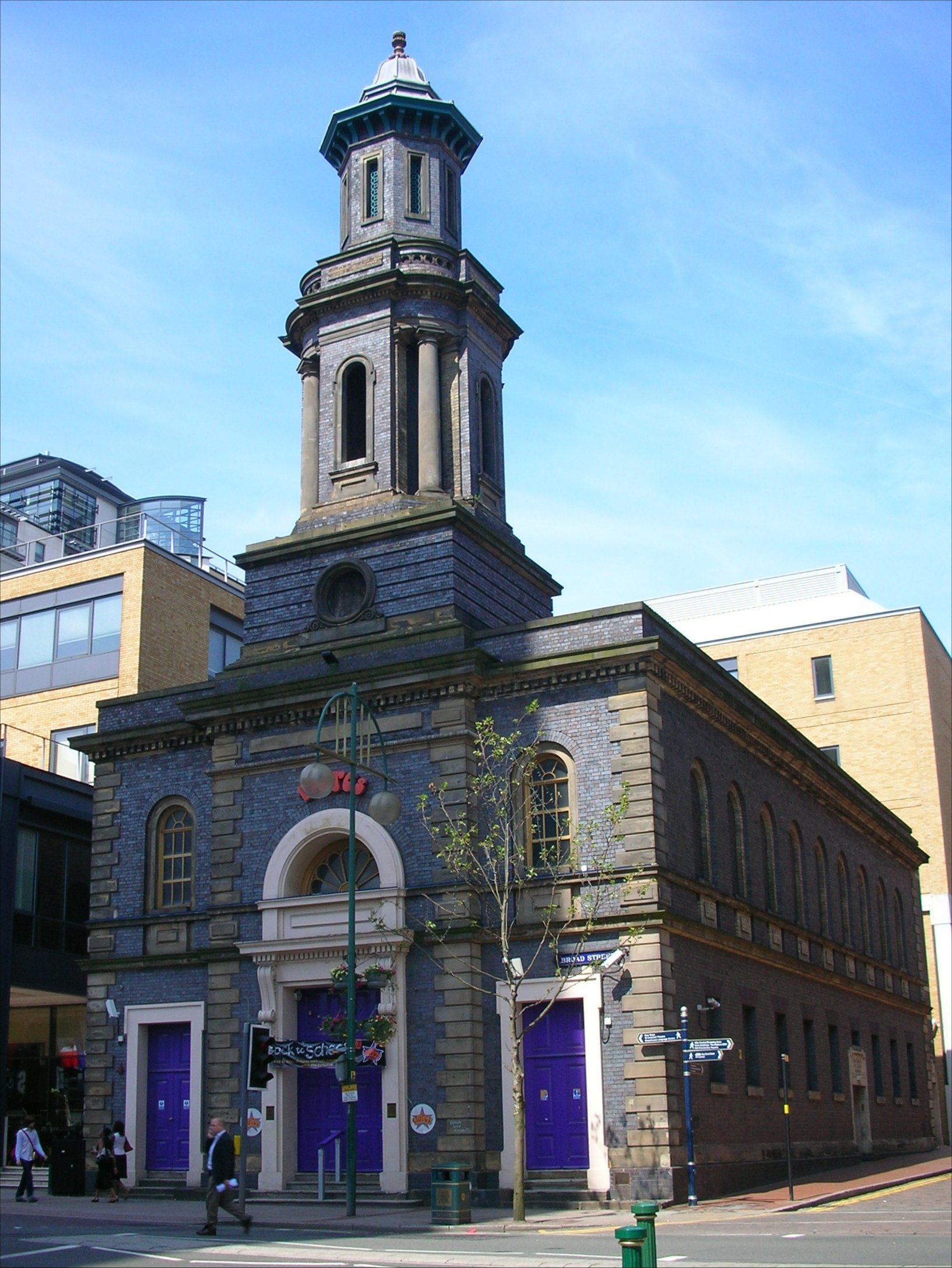 The former Second Church of Christ Scientist (adopted 1929), formerly Presbyterian church on Broad Street, Birmingham, England. Built 1848-49 by J R Botham. A Staffordshire blue brick grade II listed building. Now a nightclub (Flares). Photographed by me 16 June 2006. Oosoom